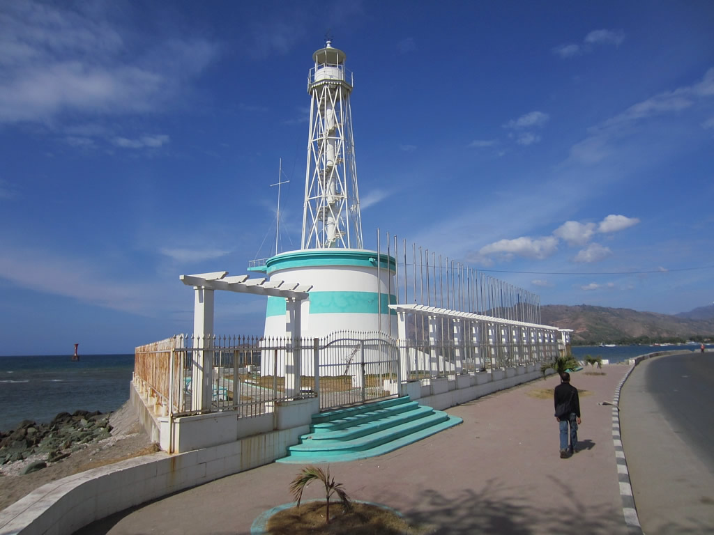 Farol lighthouse, Dili